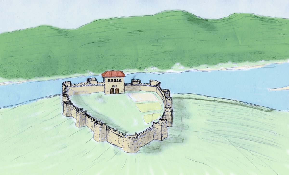 The roman auxiliary castle of Pone Navata on Sibrik Hill, near present day Visegrád, Hungary in the 4th century